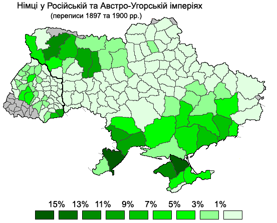 Germans in ukrainian parts of Russian and Austro-Hungarian empires, 1897 and 1900 censuses